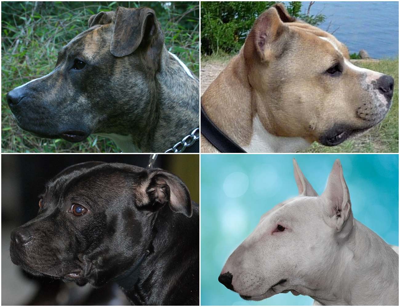 American Pit Bull Terrier, American Staffordshire Terrier, Sttaffordshire Bull Terrier, English Bull Terrier. Original works: File:2008-10-19 Pit Bull at Carolina North Forest.jpg by Ildar Sagdejev (Specious) (2)American Staffordshire Terrier Mumford.jpg by Carroy47 File:Staffordshire Bull Terrier MWPR Katowice 2008 001.JPG by Lilly M File:BULL TERRIER Agosto 2010.jpg by [1]